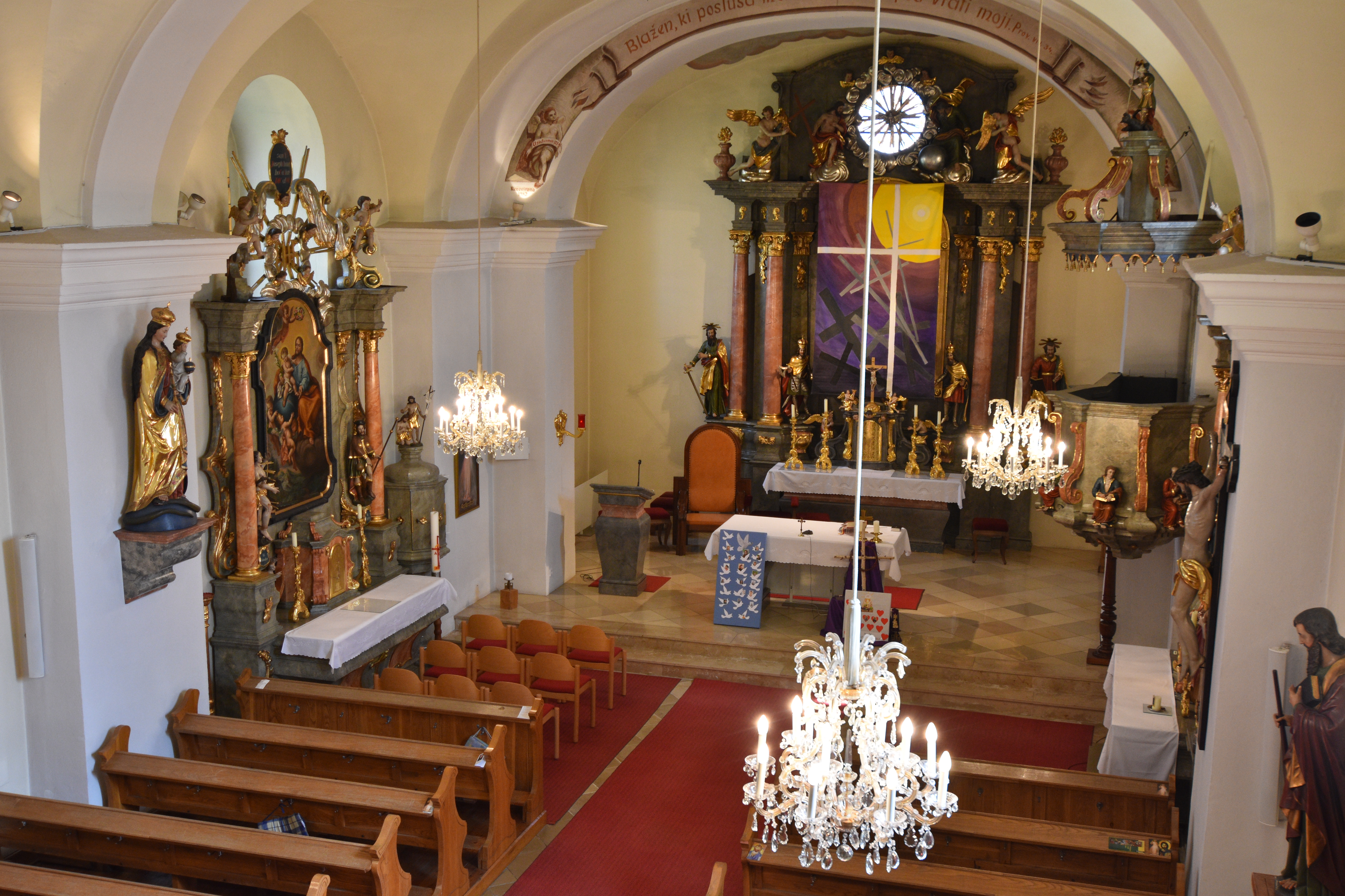 Church Großwarasdorf - Interior